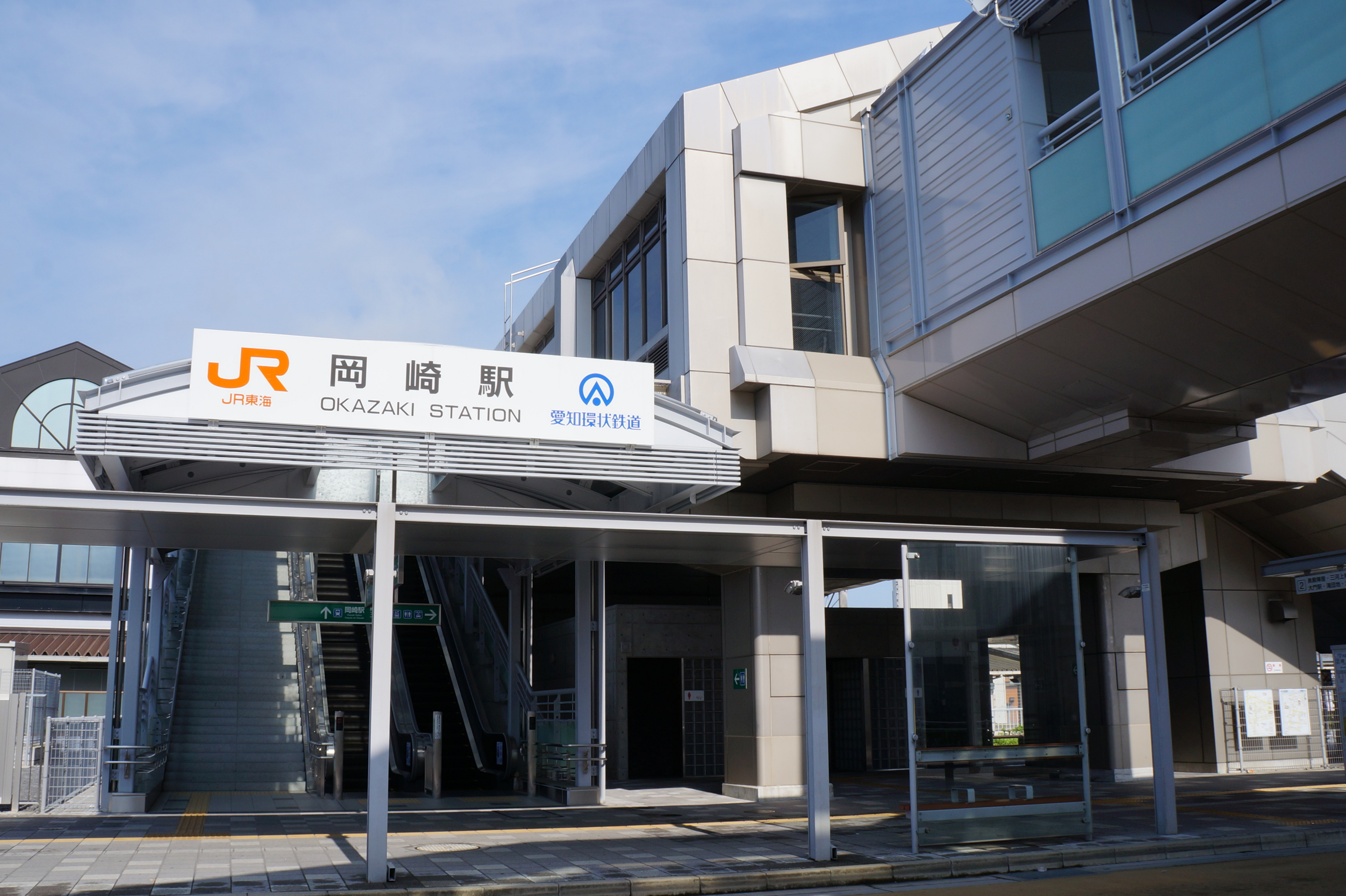 East Gate of JR Okazaki Station in Okazaki City, Aichi Prefecture.